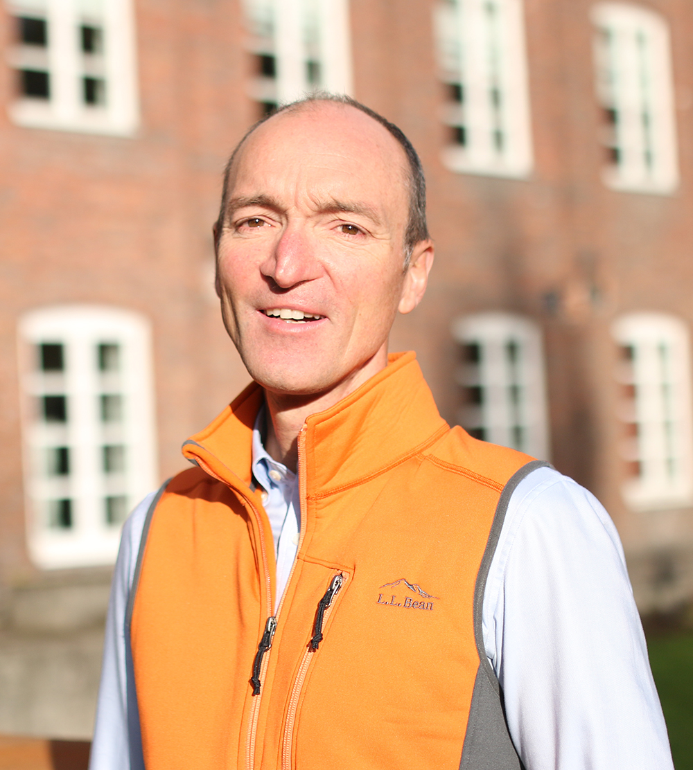 The Norwegian professor Bjørn Hofmann, of Gjøvik University College. This is a university college in Norway